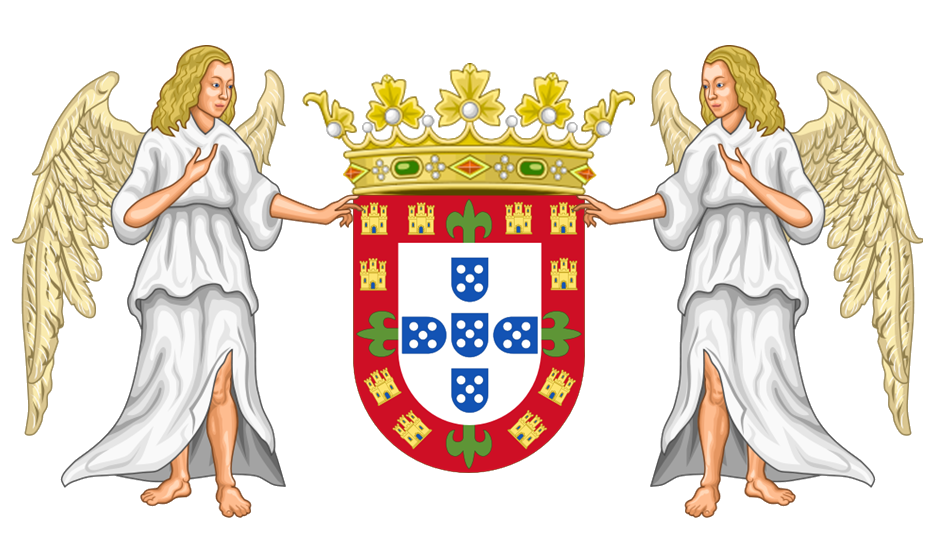 Sources